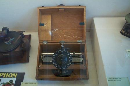 The Lambert typewriter, an early typewriter with a circular keyboard, seen in La Scala museum, Milan, on 2004-06-09. It was invented by French immigrant Frank Lambert in 1884 and manufactured by the Lambert Typewriter Co., New York, USA, beginning in 1902. Pushing a key on it's unique solid keyboard caused the whole keyboard to tilt, moving a keystamp under it to the correct position and driving the letter against the paper. The machine was a success and was also produced in the UK and France. For more information see Lambert, The Virtual Typewriter Museum